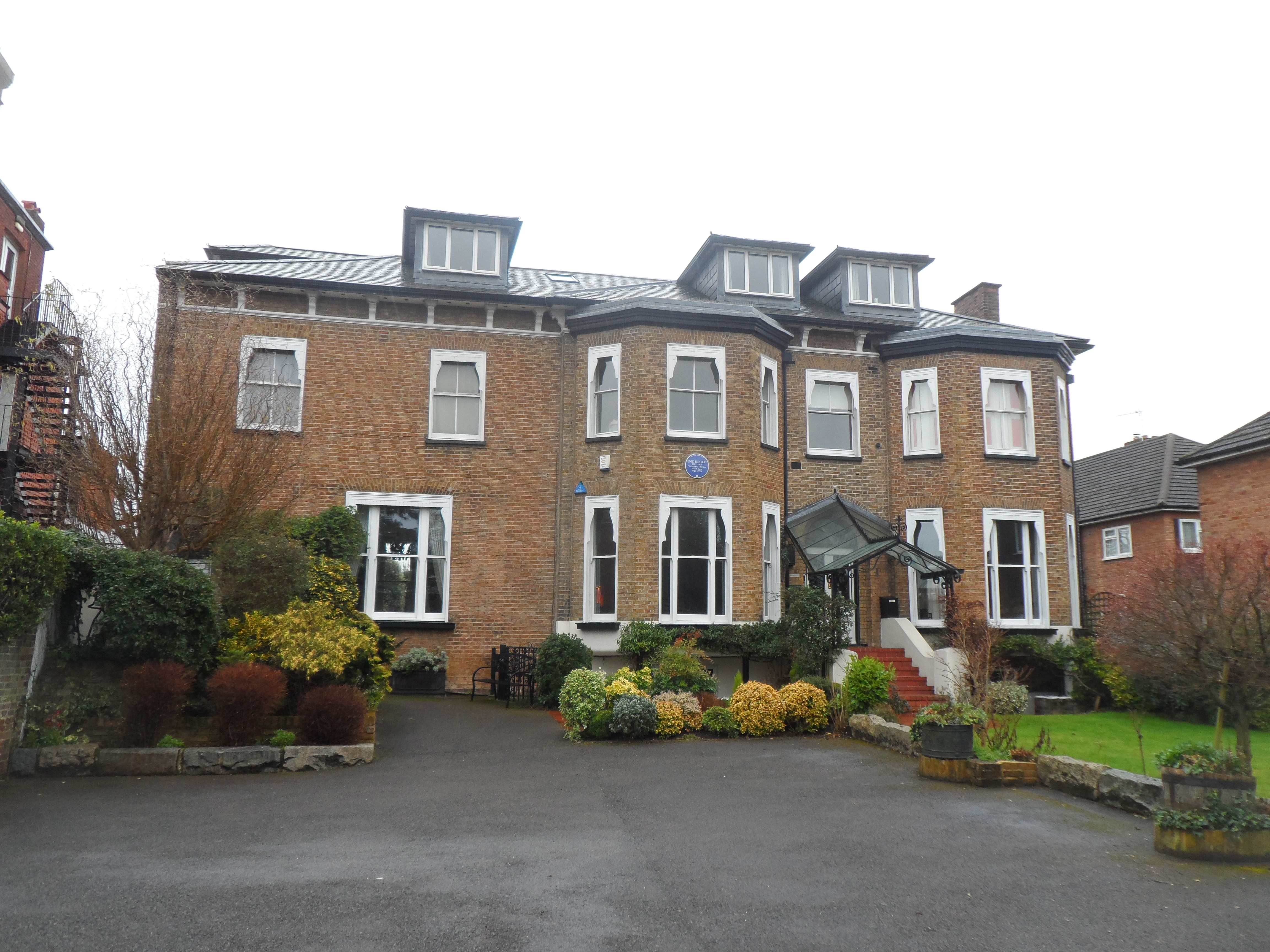 Enid Blyton 1897-1968 children's writer lived here 1920-1924